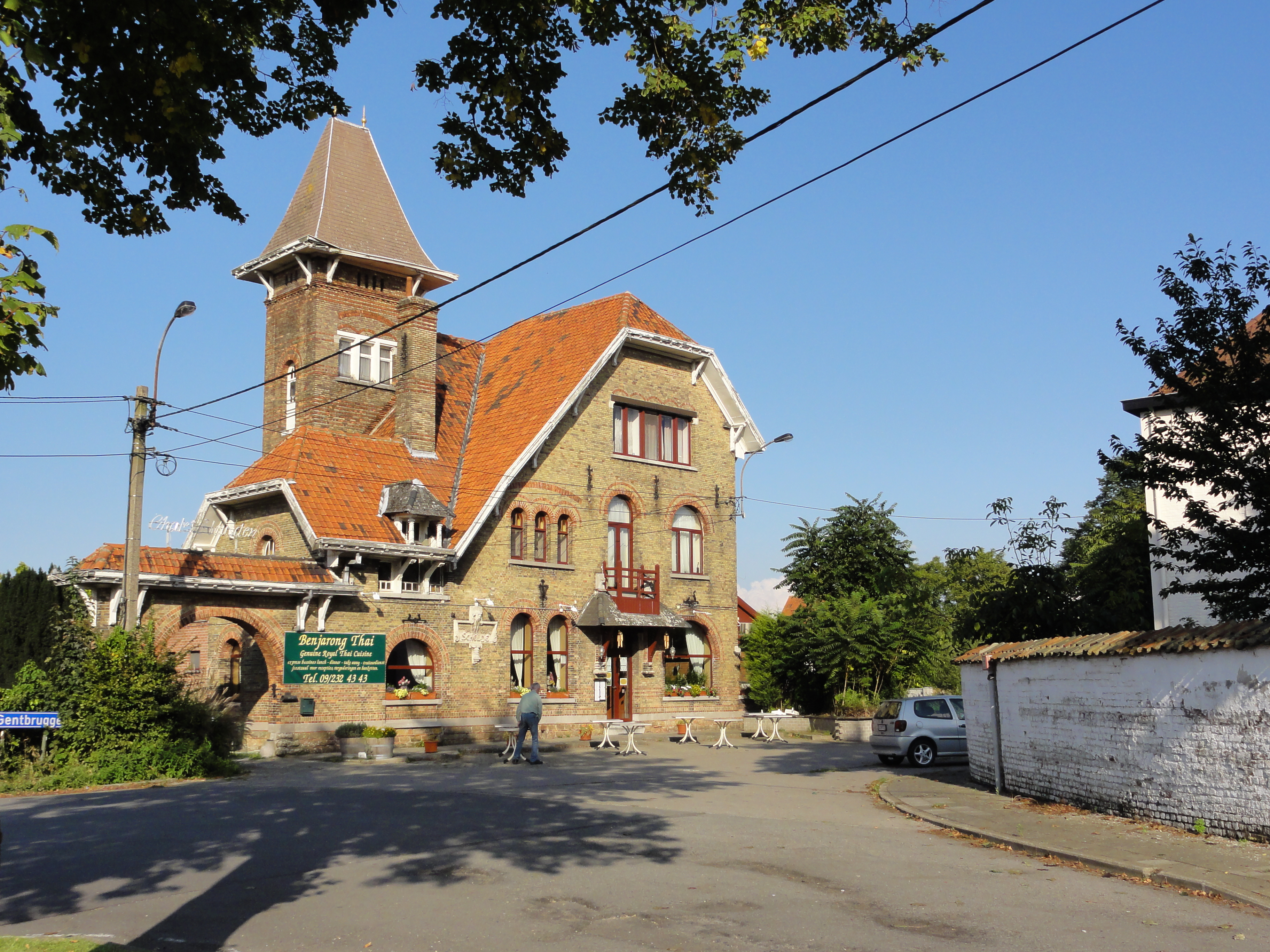 Restaurant formerly known as "'t Palinghuis" and "Chalet Heusden", built along the borders of the Scheldt in Melle, on the border with Heusden. Melle, East Flanders, Belgium